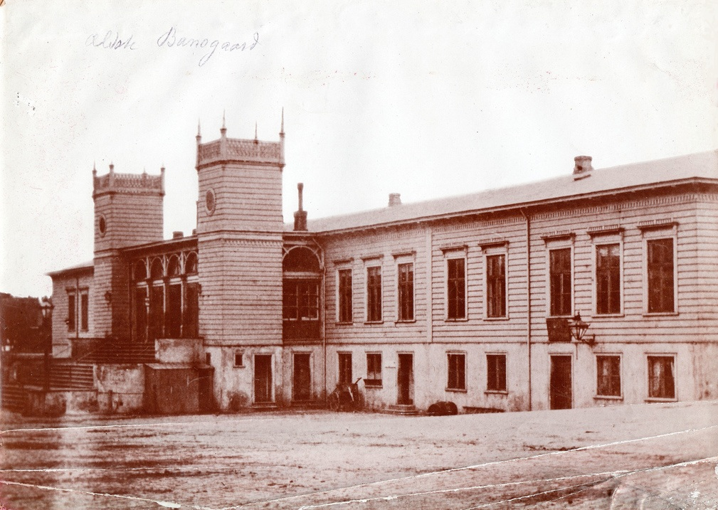 The first central station of Copenhagen. Cropped version.